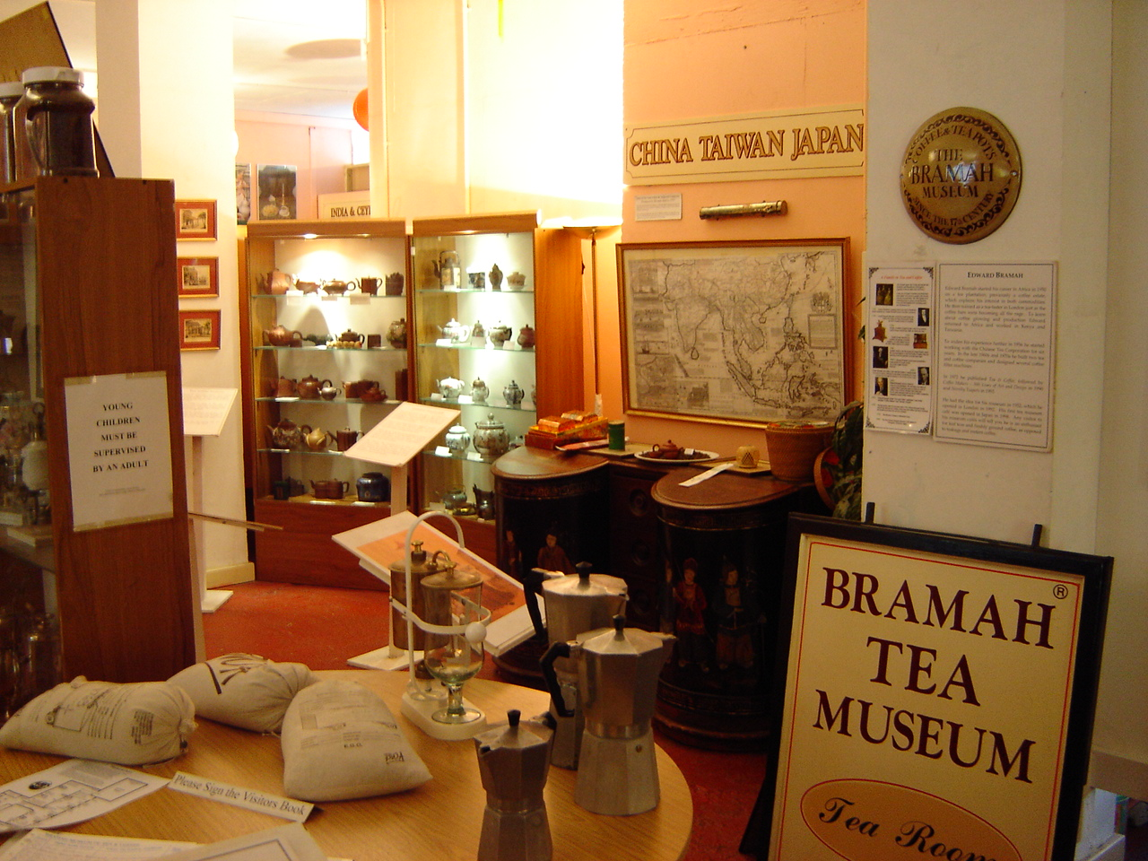 The inside of the Bramah Tea and Coffee Museum in London, England